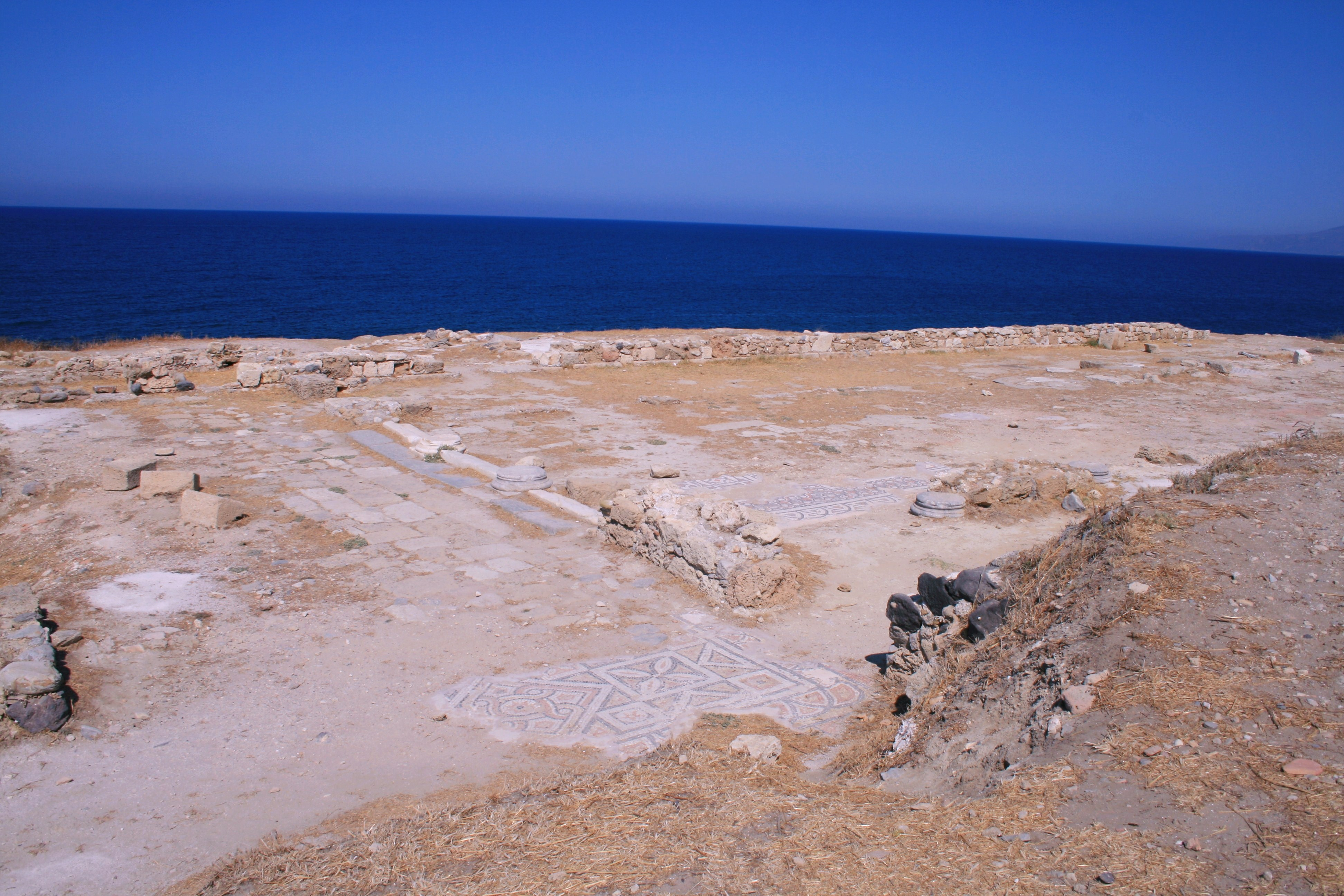 The ruins of early Christian basilica in Hersonissos (Crete, Greece)